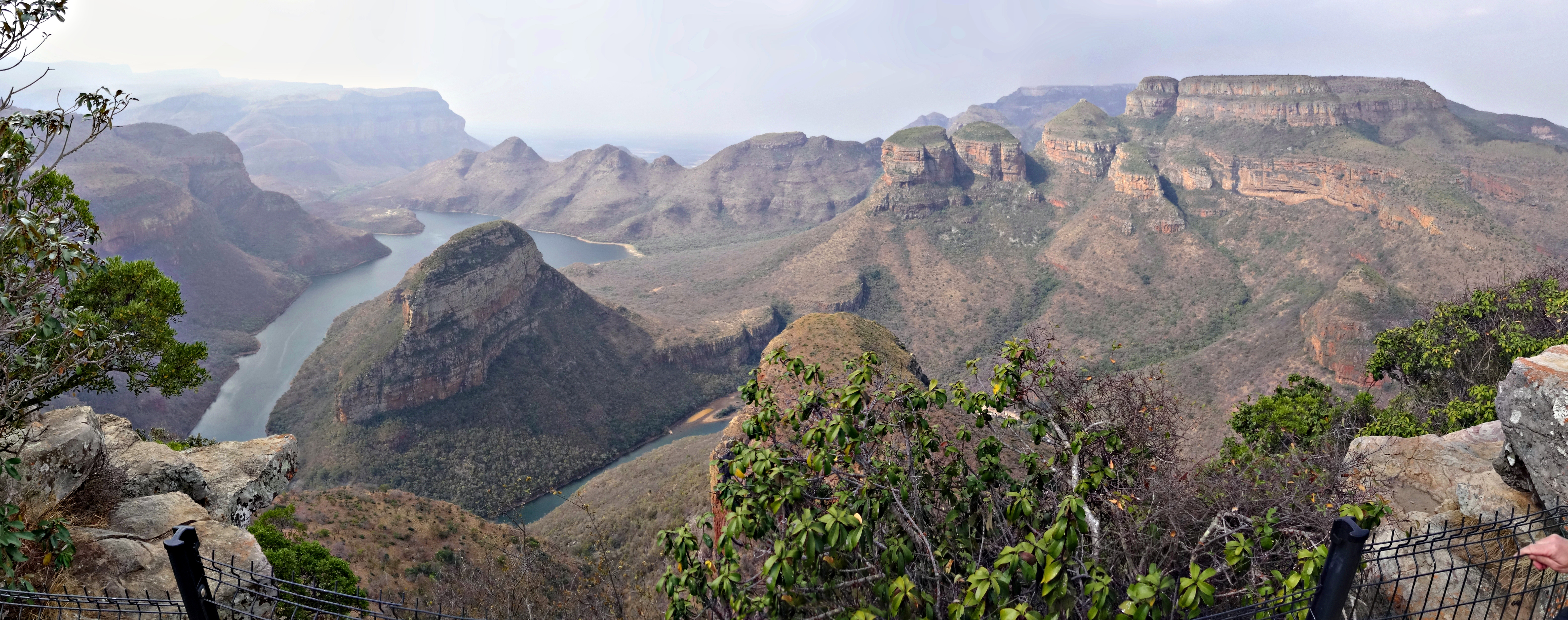 View of Blyde River Canyon from Three Rondavels View Point